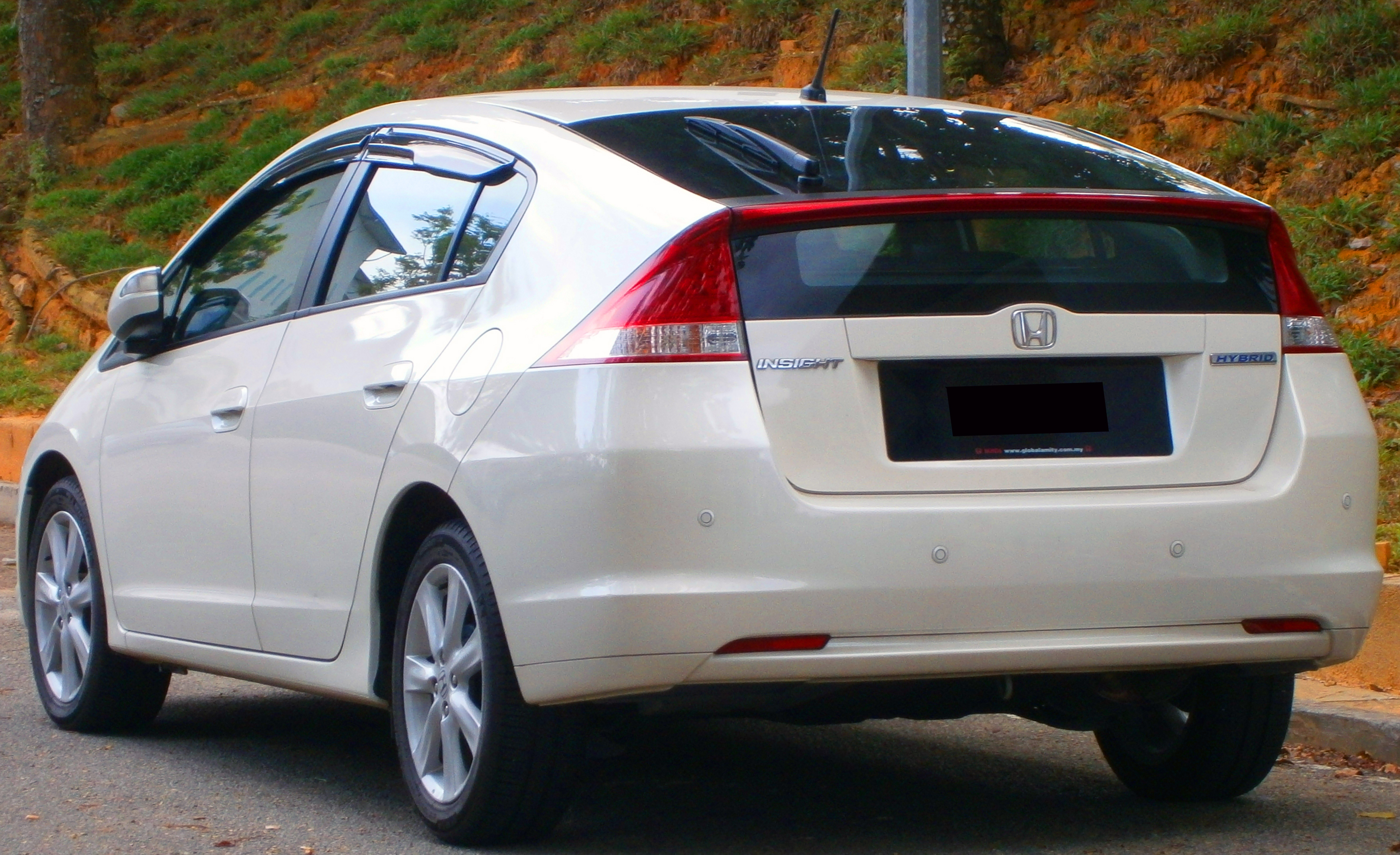 2011 Honda Insight Hybrid in Cyberjaya, Malaysia. Colour : Premium White Pearl Designed & Manufactured in Japan